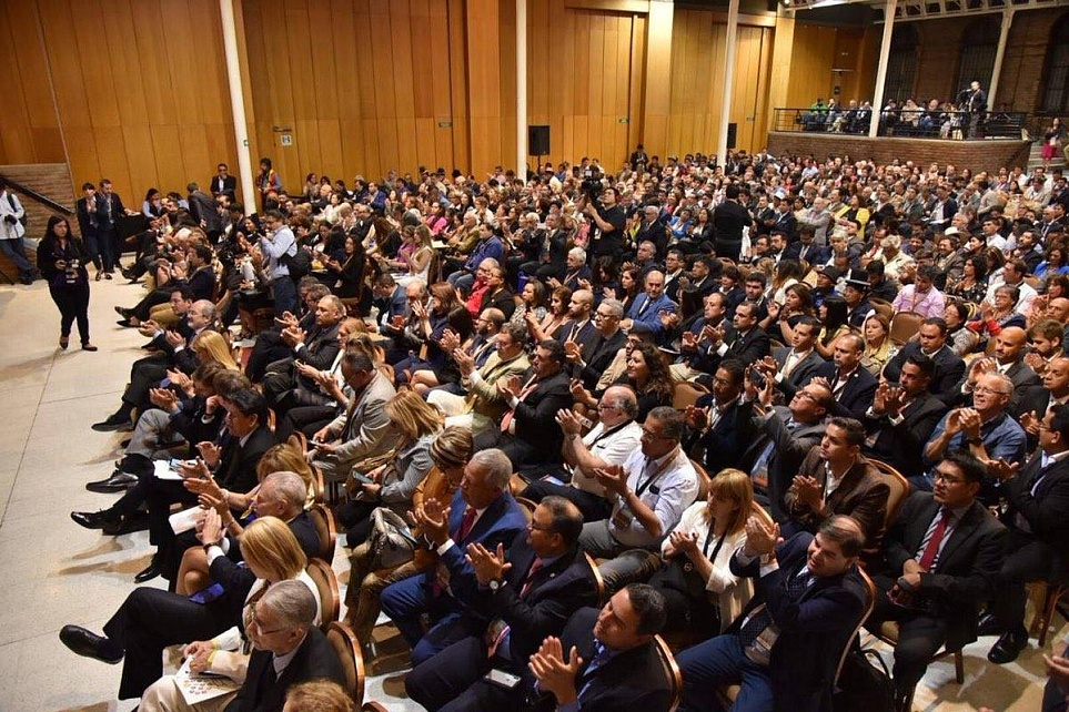 For more info on this event, see CC-BY 4.0 article at